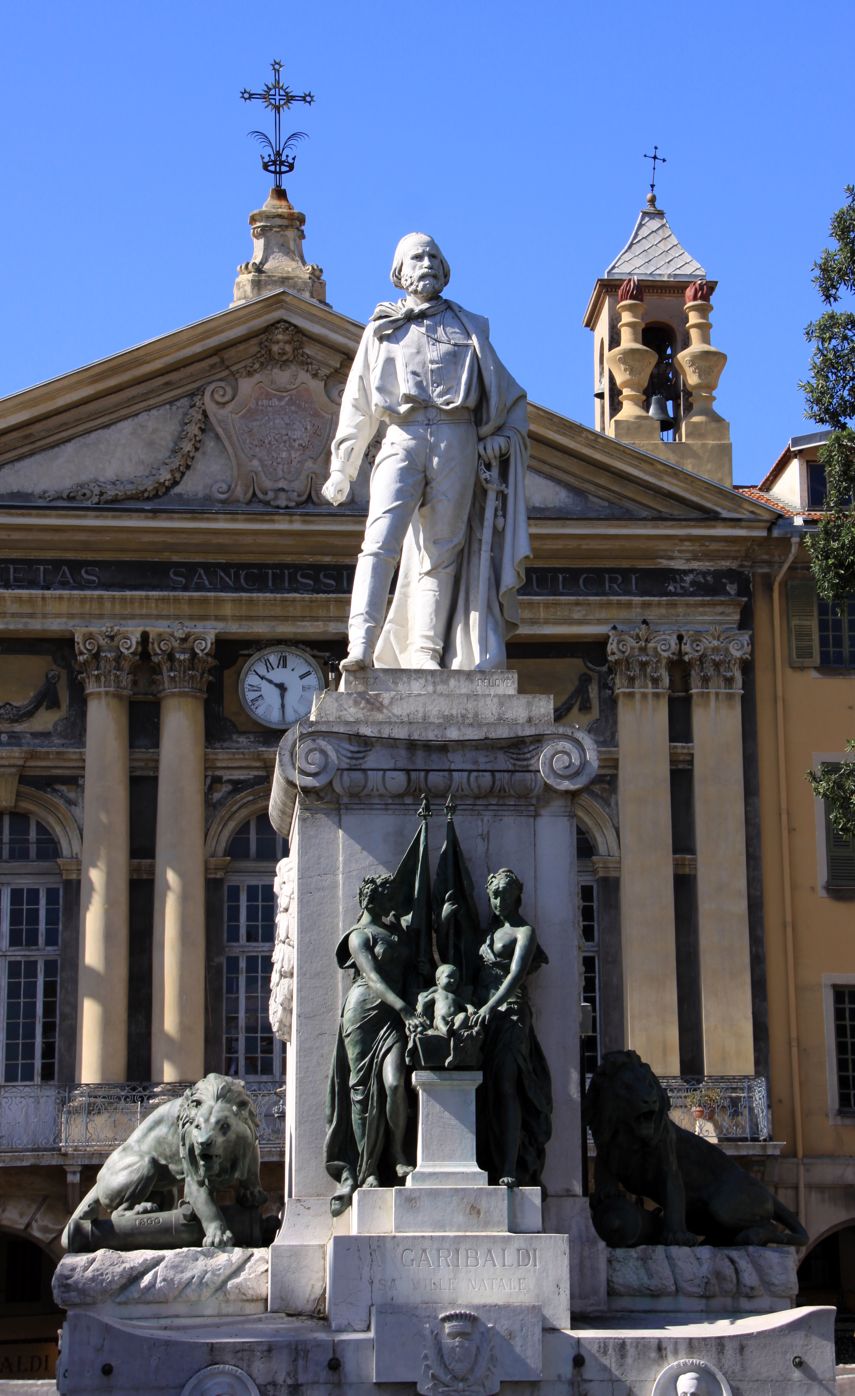 Nice (Nizza) Place Garibaldi